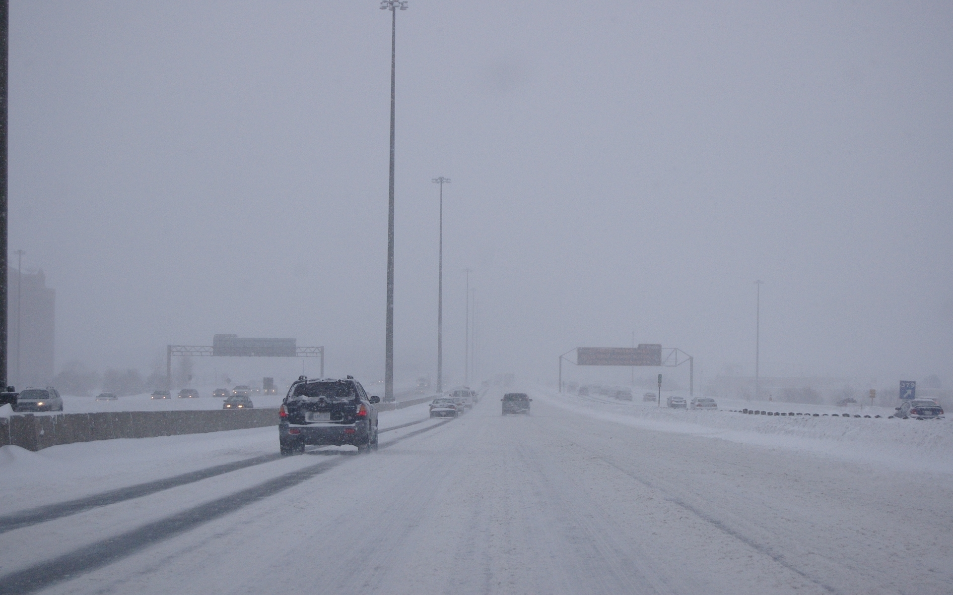 Highway 401 in Toronto during a winter storm